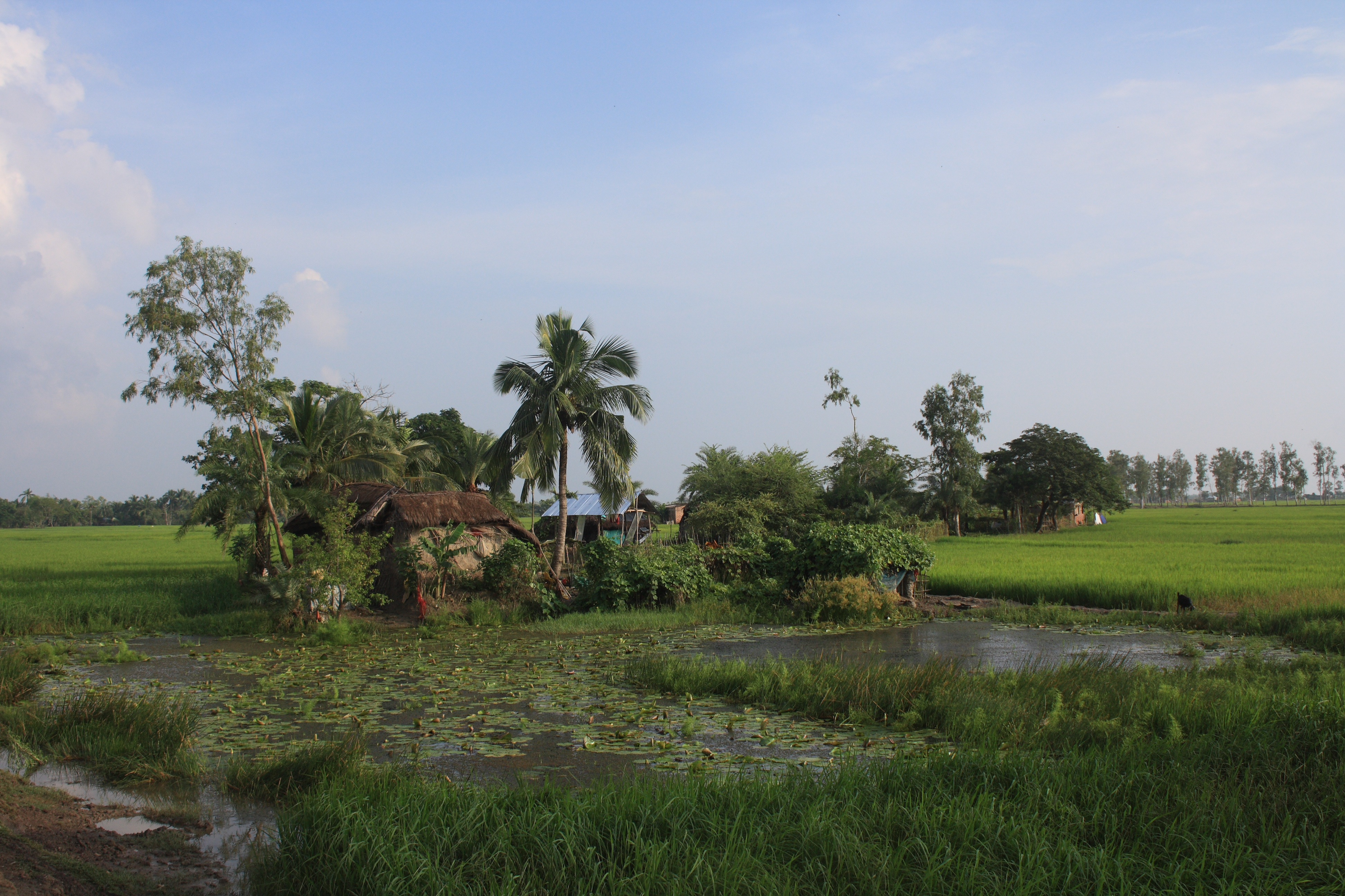 A farm on an island in the Ganges delta, sunderban area, India. In the background there are rice fields, in the foreground, there is a water pond with lotus plants. As the island is not connected to an electricity network, this house is powered by solar panels.